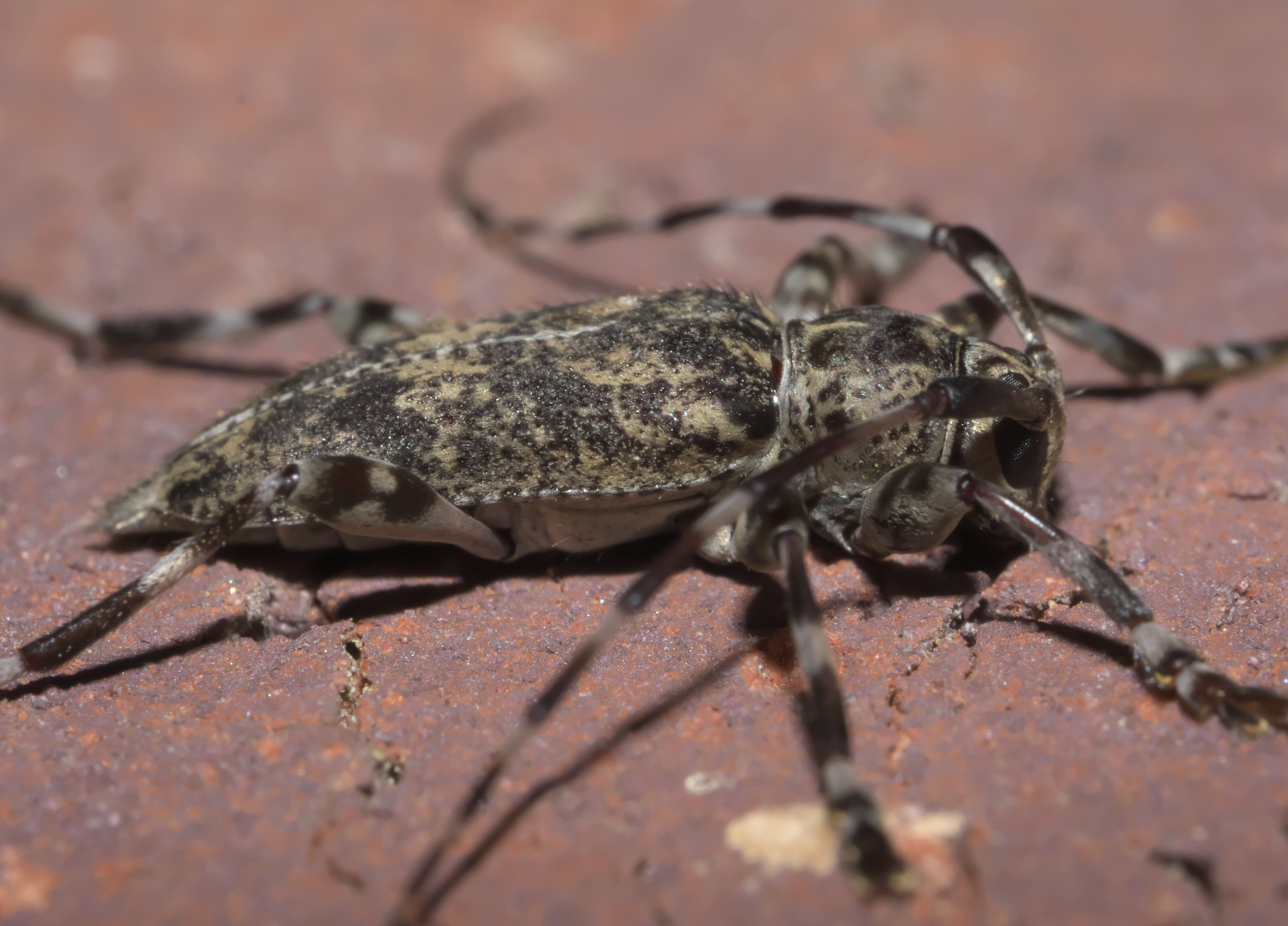 Graphisurus fasciatus, Subfamily: Flat-Faced Longhorns, Size: 12.6 mm, ID Confidence: 86